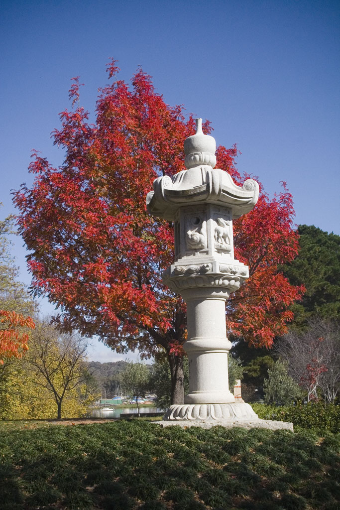 Stone lantern at the Lennox Gardens, Canberra